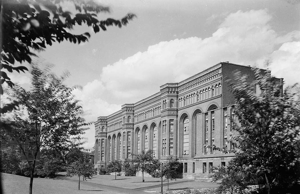 Royal Ontario Museum, west facade in 1922 — Toronto, Ontario, Canada.